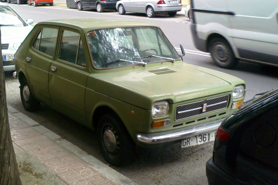 Seat 127 with 5 doors, which was only sold in spain.